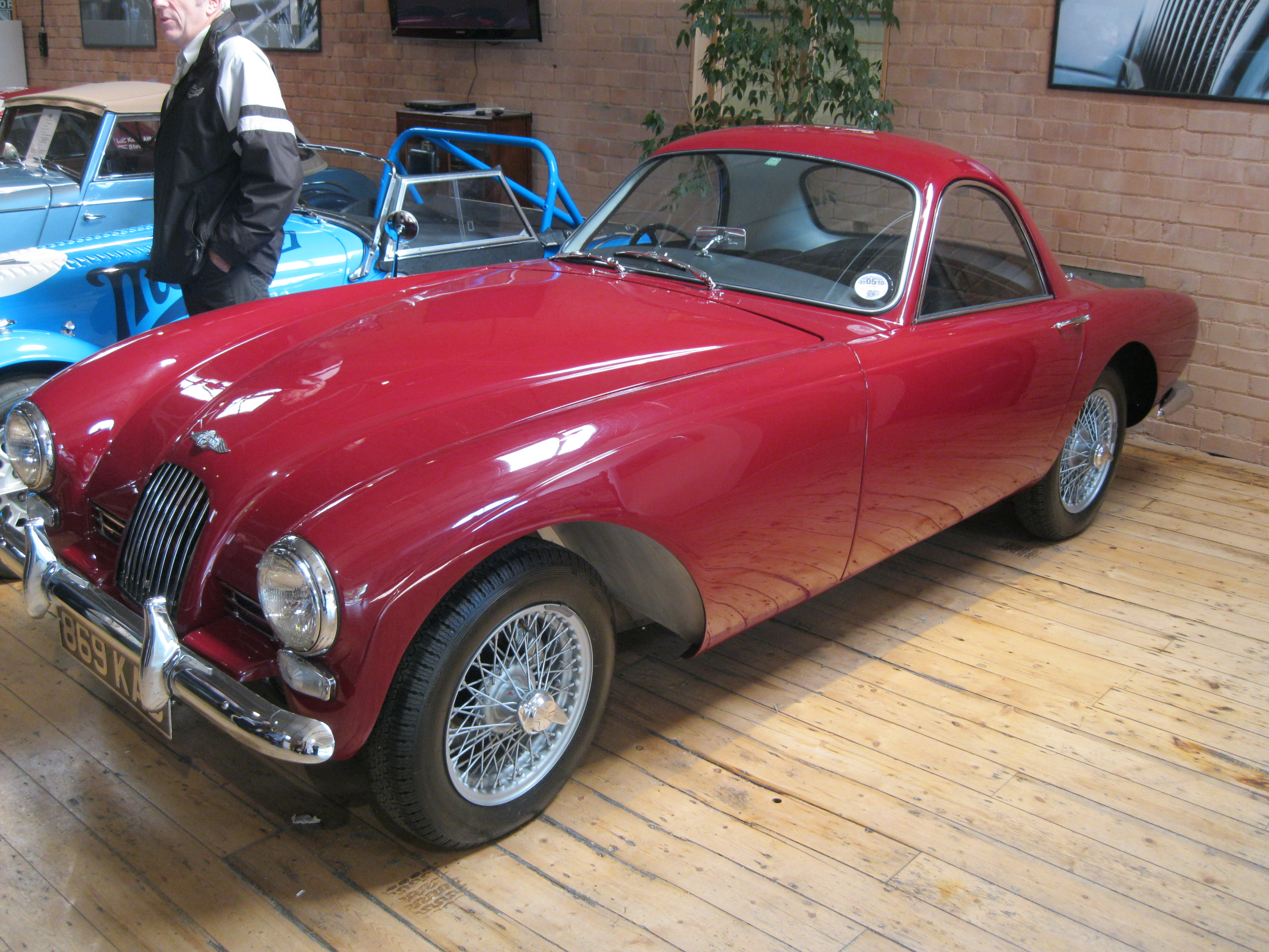 Very short production run (26 cars) for this GRP bodied hardtop Morgan in the mid 1960s